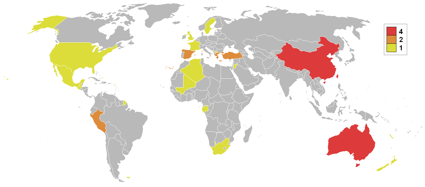 Map showing the Mixed Heritage Sites distribution by State Parties.